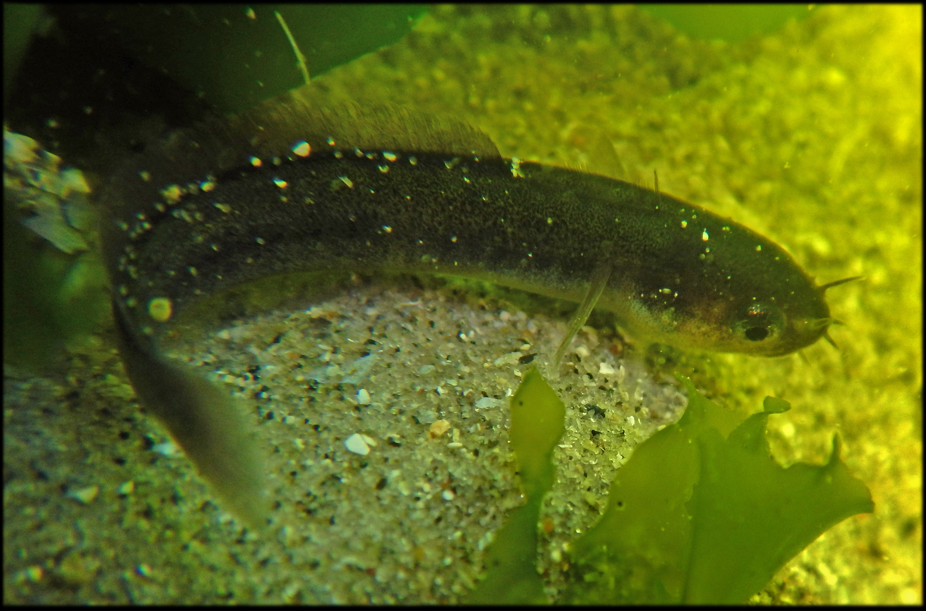 Juvenile of "Ciliata mustela" (Fivebeard rockling) photographed in a down filled with some rocks (at low tide), in Wimereux (northern France) July 7, 2016 by F Lamiot. At least 3 motelles were present on some m2